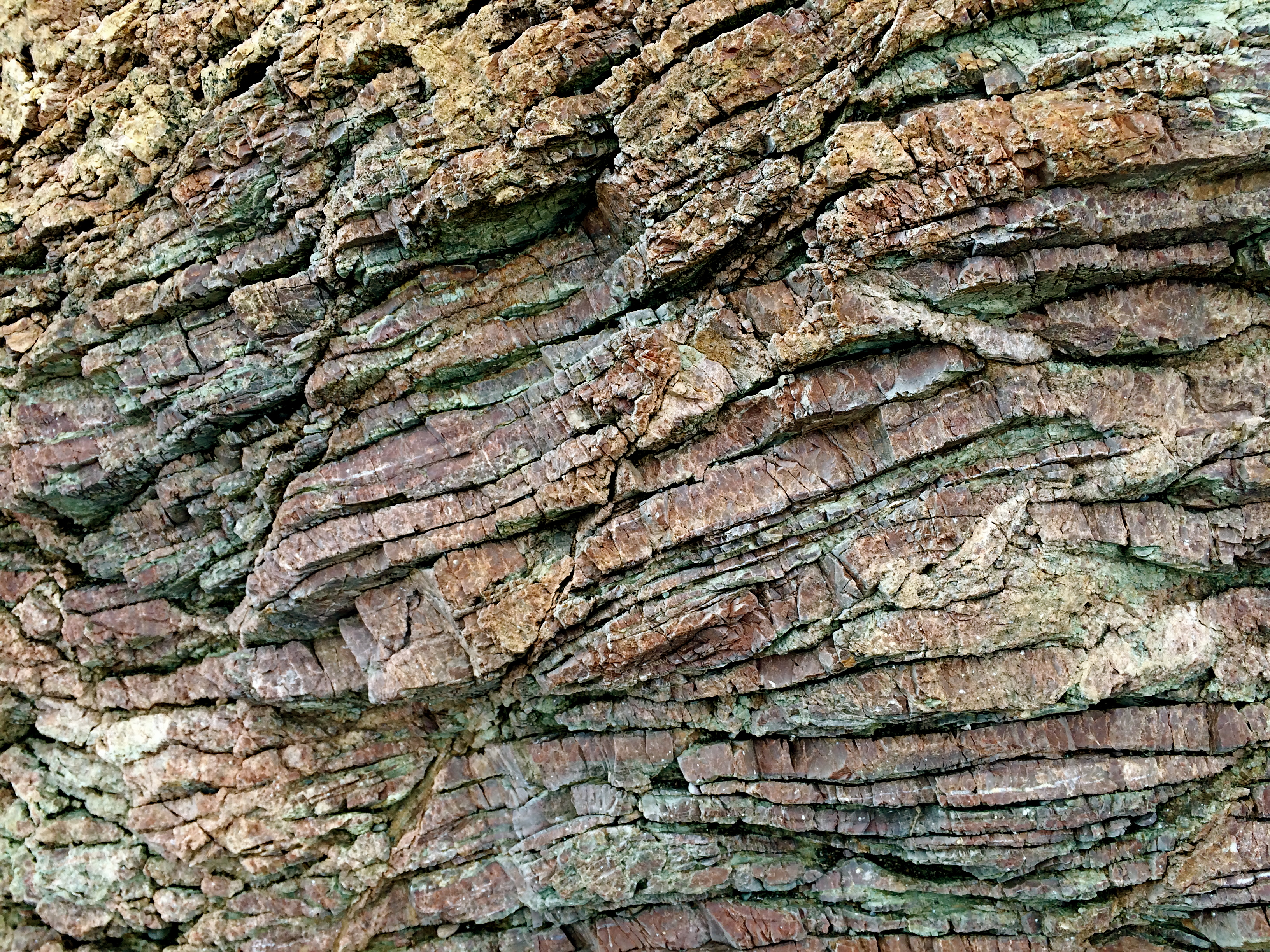 Radiolarian chert, in a large "knocker" of Franciscan chert, on the beach near the bird rock, north of San Simeon creek